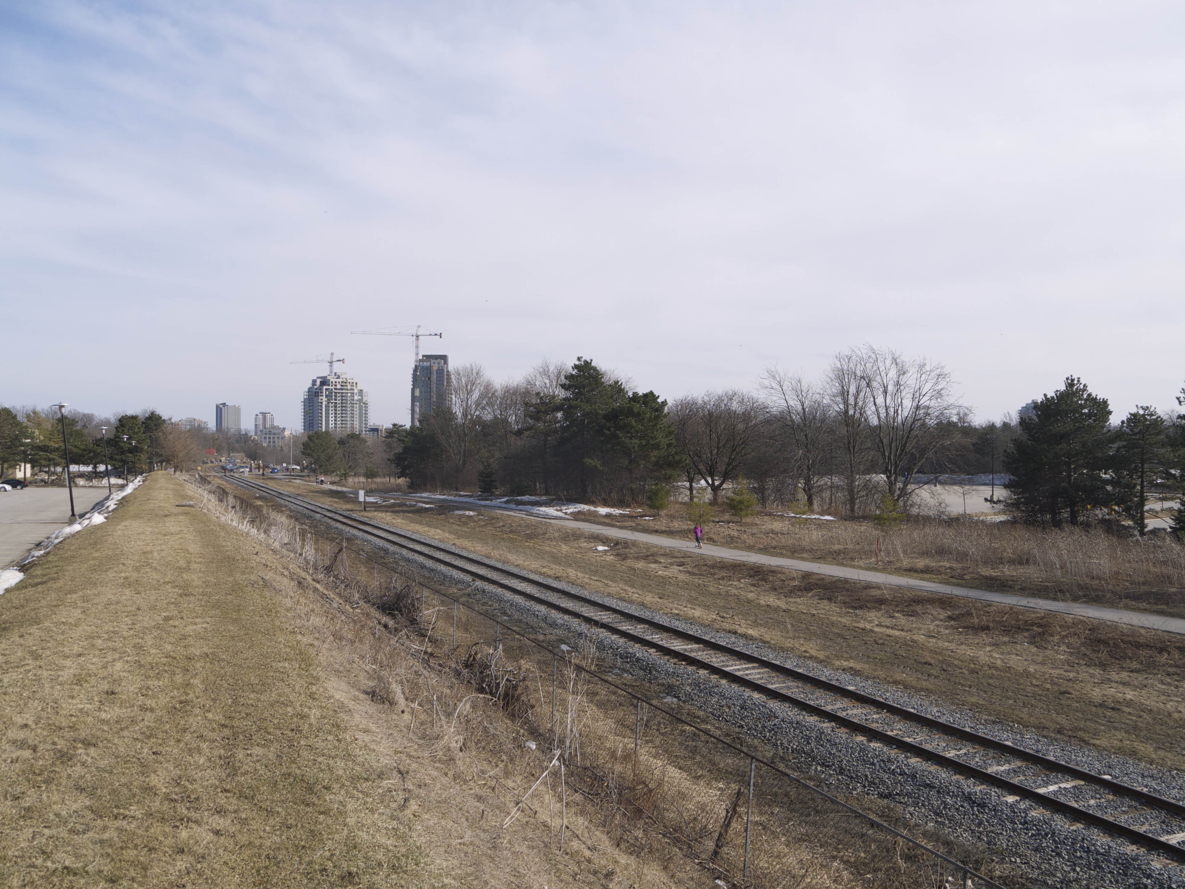 Waterloo spur just south of University Avenue, looking towards downtown Waterloo.